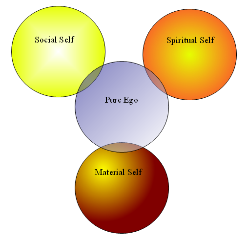 Selves according to William James.